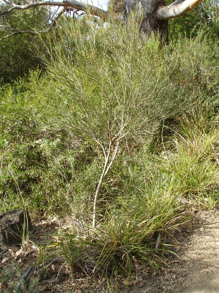 Photographed at Maranoa Gardens, Melbourne, Victoria, Australia HelloMojo 07:53, 6 April 2007 (UTC)